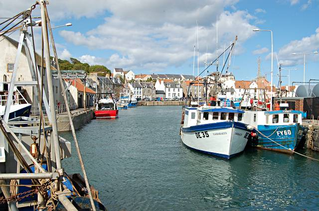 Pittenweem Harbour. The western harbour looking across to East Shore area with the selling shed on the left by the red sterned boat.